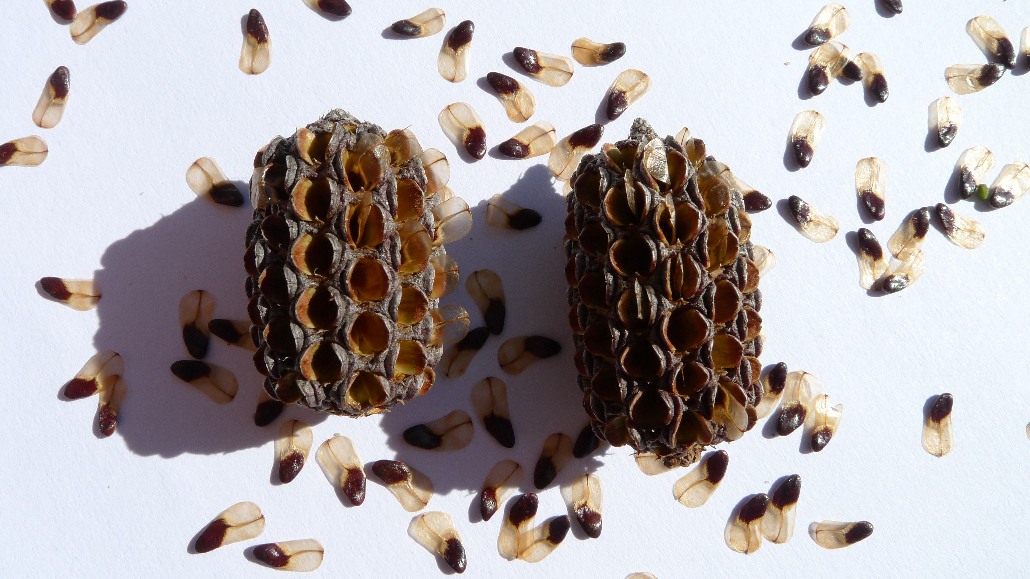 Cones and seeds of Scrub She-oak, Allocasuarina distyla. Burnum Burnum Reserve, Jannali, NSW, Australia, May 2012.